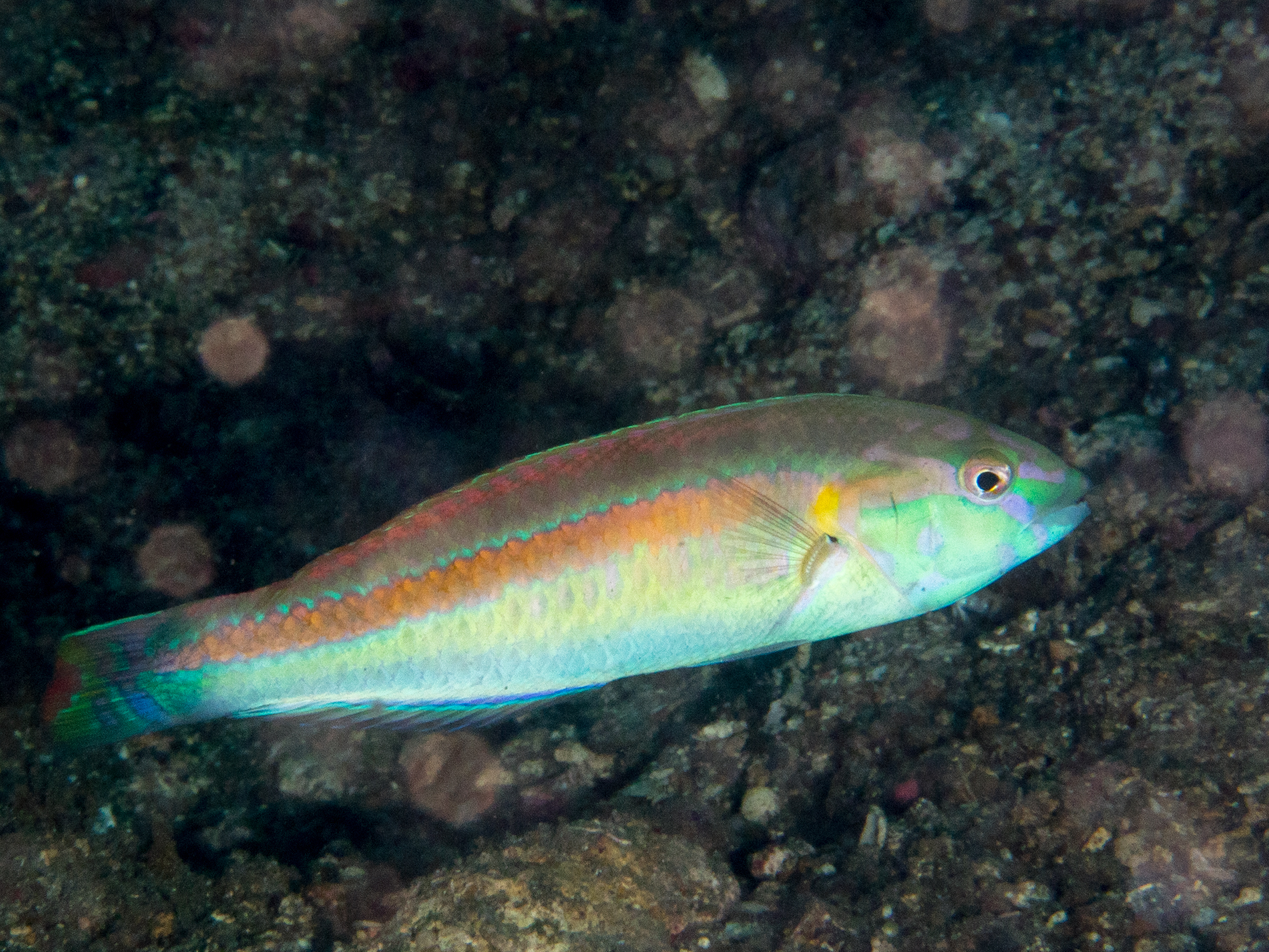 Lembeh, Indonesia - Goldstripe wrasse (Halichoeres hartzfeldii)